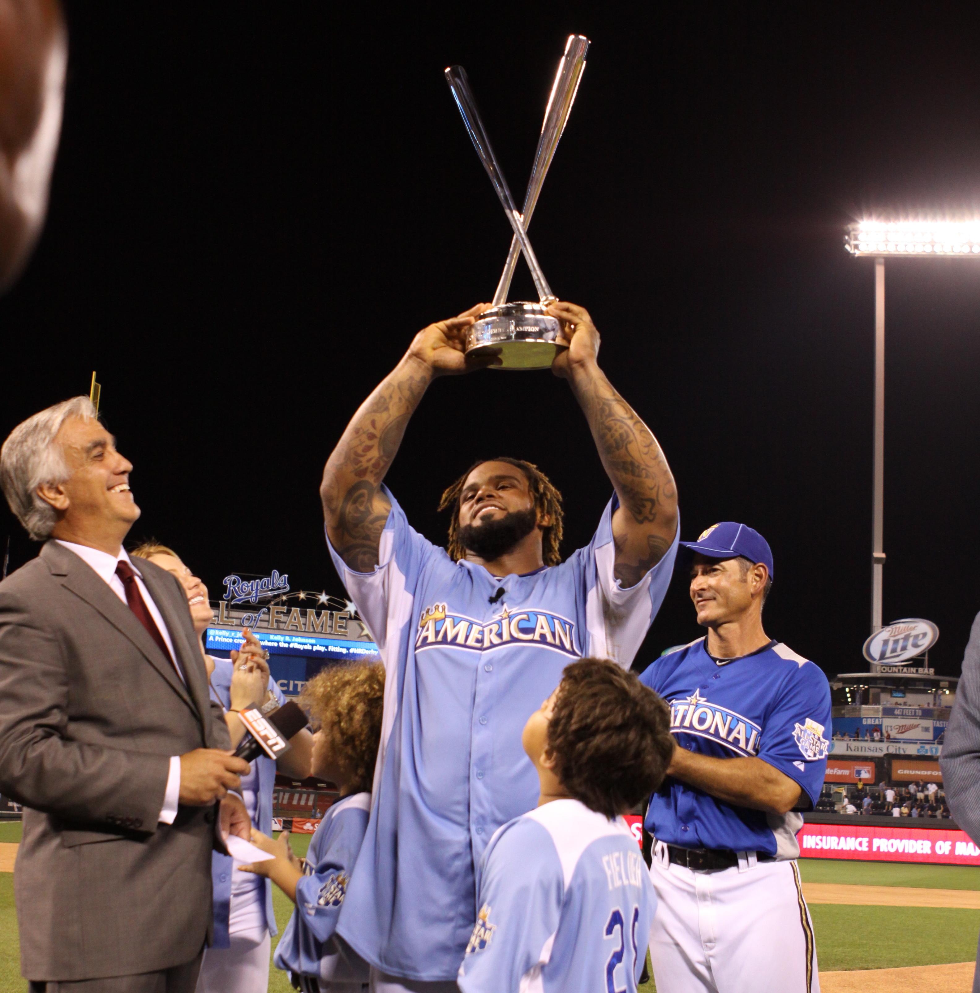 Andrew Dahlen winner of the 2012 Home Run Derby raises the trophy in victory. Prince hit an amazing 28 home runs to win his second career derby. The State Farm Home Run Derby showcases awe-inspiring athleticism while generating support for great charitable causes.